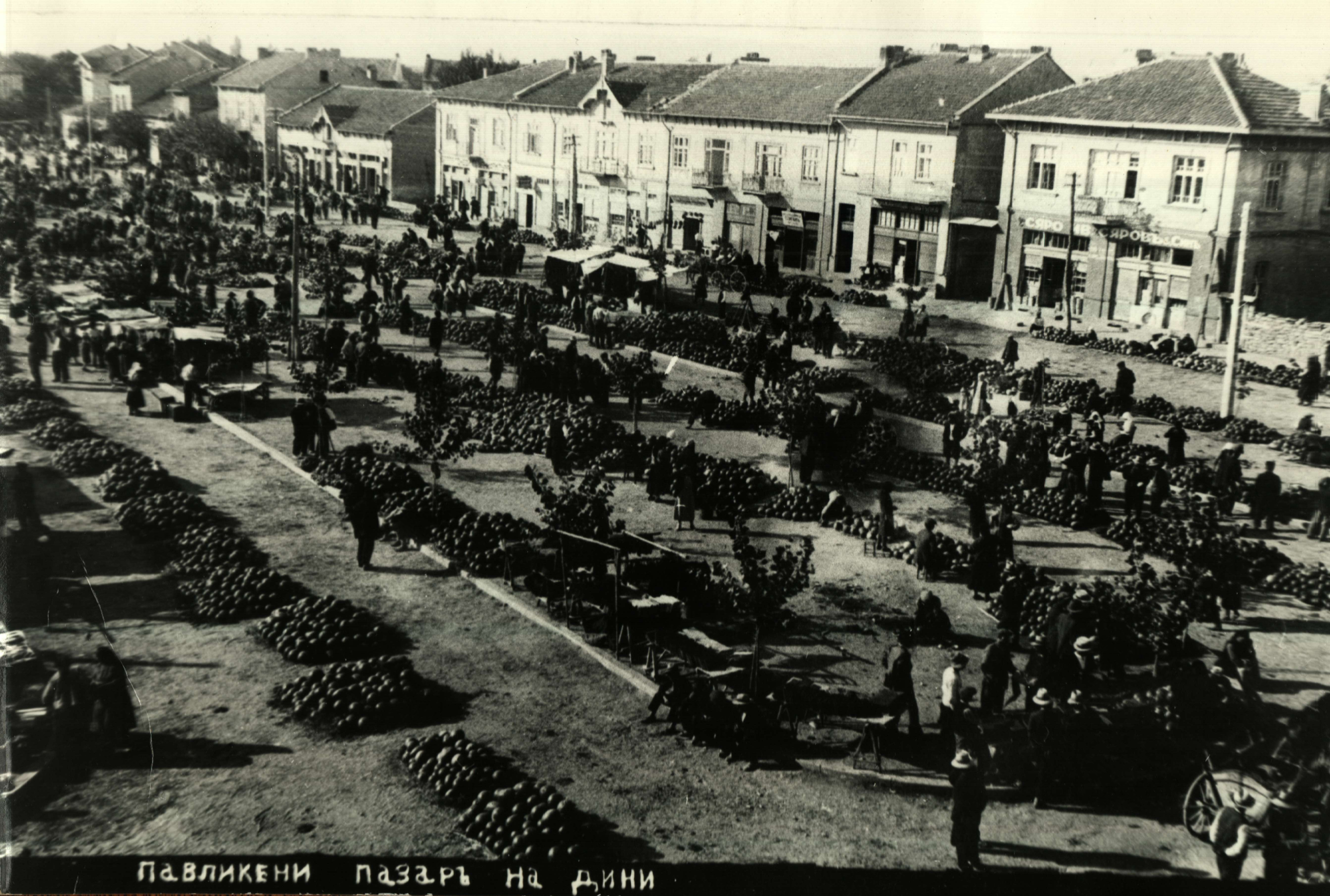 Pavlikeni, Bulgaria